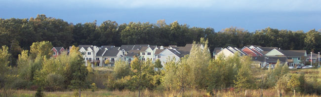 Cohousing community illustrating greenspace preservation, tightly clustered housing, and parking on periphery. (Sunward Cohousing, Ann Arbor, Michigan, 2003) Sunward Cohousing consists of 40 homes clustered on 5 acres with an additional 15 acres of preserved woods, open prairie, ponds, and wetlands. Approximately 65 adult and 25 child community members. (40 home Cohousing community illustrating greenspace preservation, tightly clustered housing, and parking on periphery. (Sunward in Ann Arbor, MI 2003))